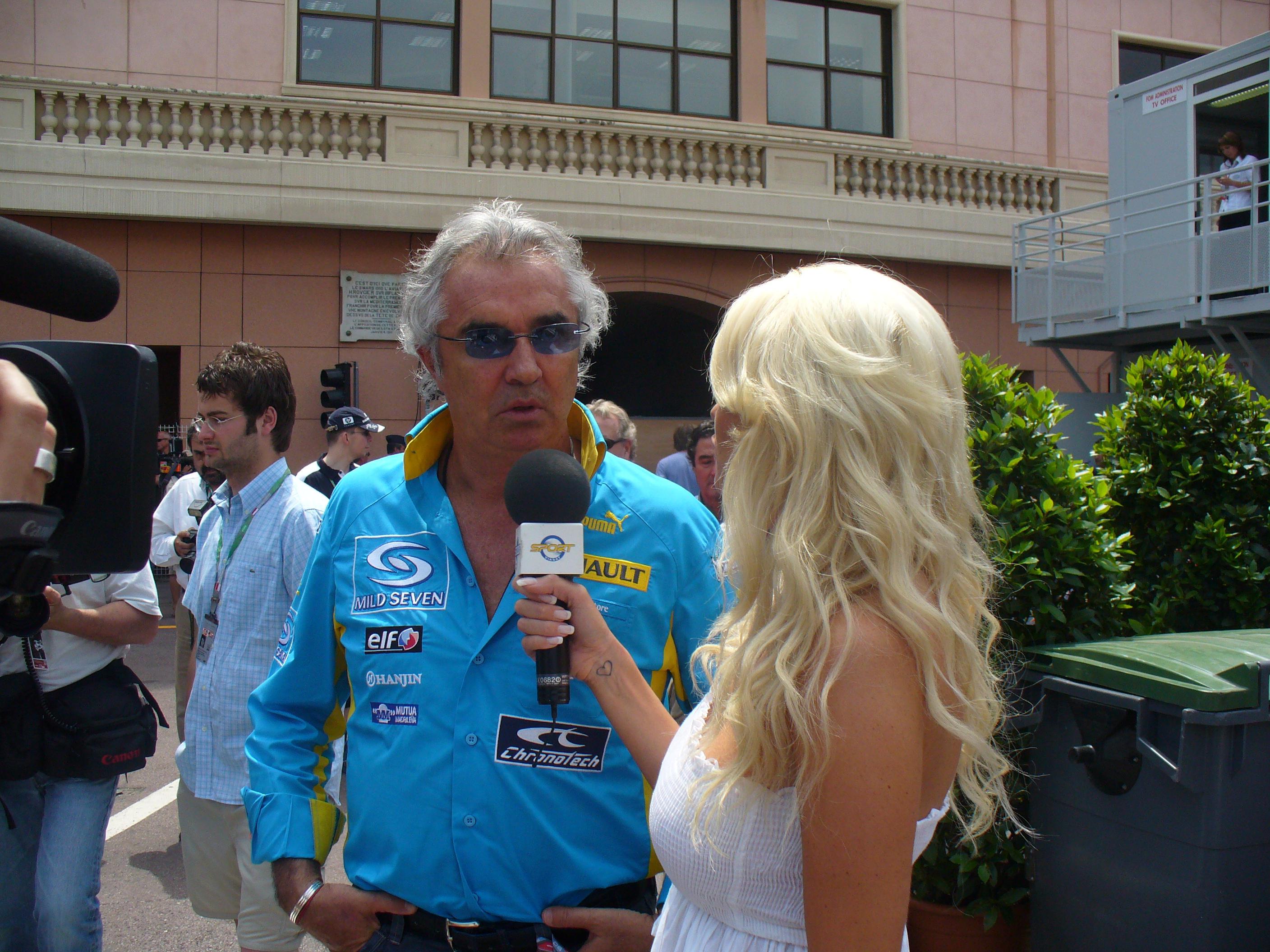 Formula 1 manager Flavio Briatore interviewed by Carolina Gynning at the 2006 Monaco Grand Prix